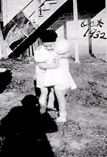 Fred Phelps, aged 3, and Martha-Jean Phelps, aged 2, standing in the shadow of Fred Wade Phelps. Photo by Fred Wade Phelps. 1932. No copyright.